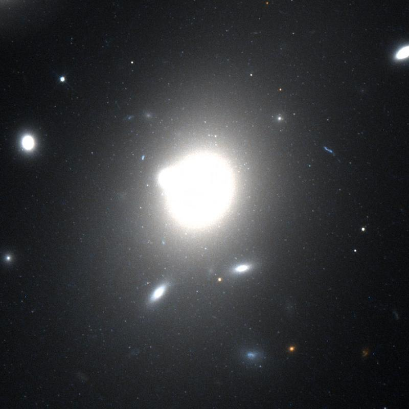 Hubble image of the giant elliptical galaxy ESO 444-46.